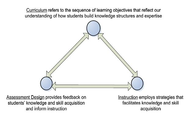 pic6 ahm wiki